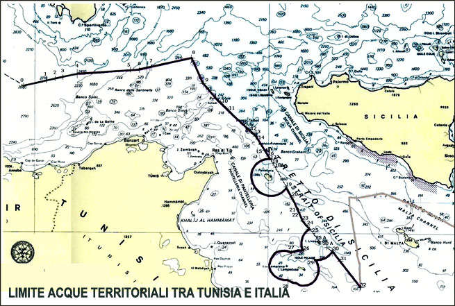 Italy-Tunisia maritime norder